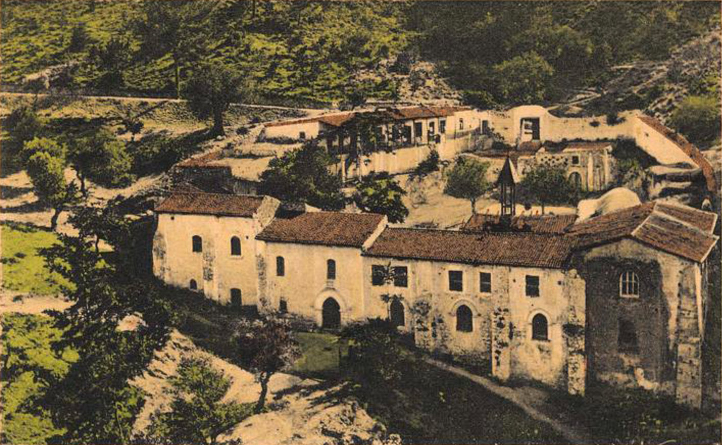 Panoramic picture of the Magaravank in Halevga, Cyprus